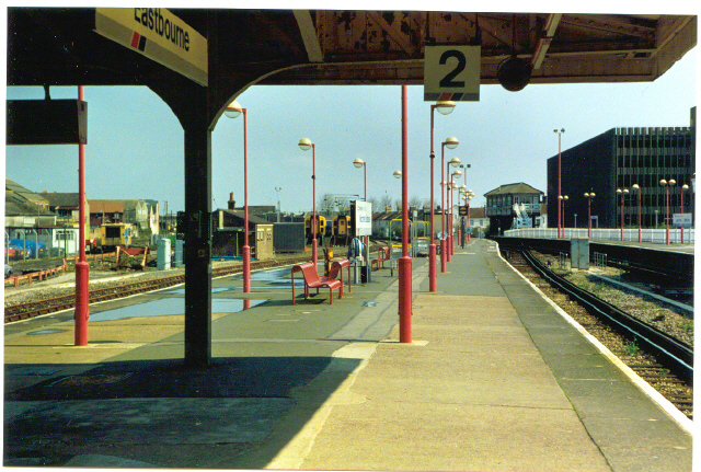 Eastbourne. Eastbourne station. Junction for lines to Hastings, to the east, and Brighton, to the west.